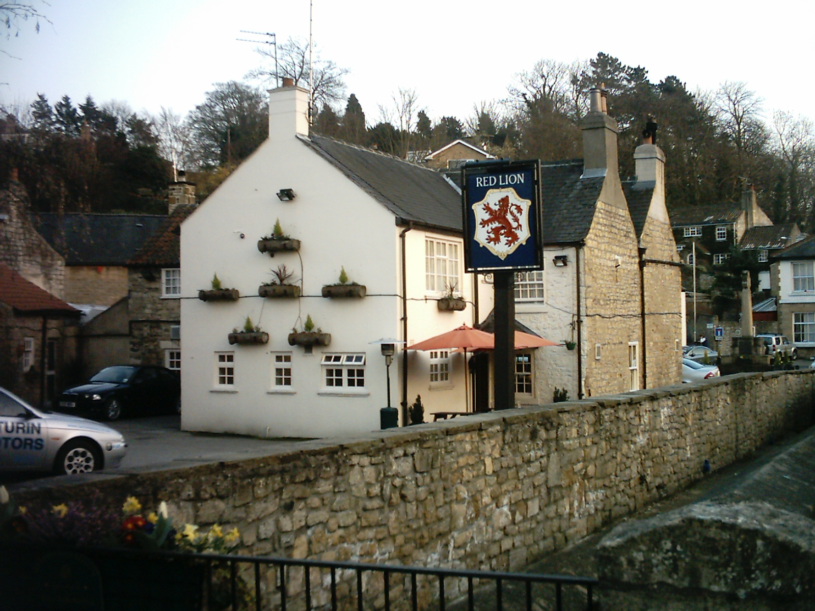 The Red Lion in Bramham, West Yorkshire